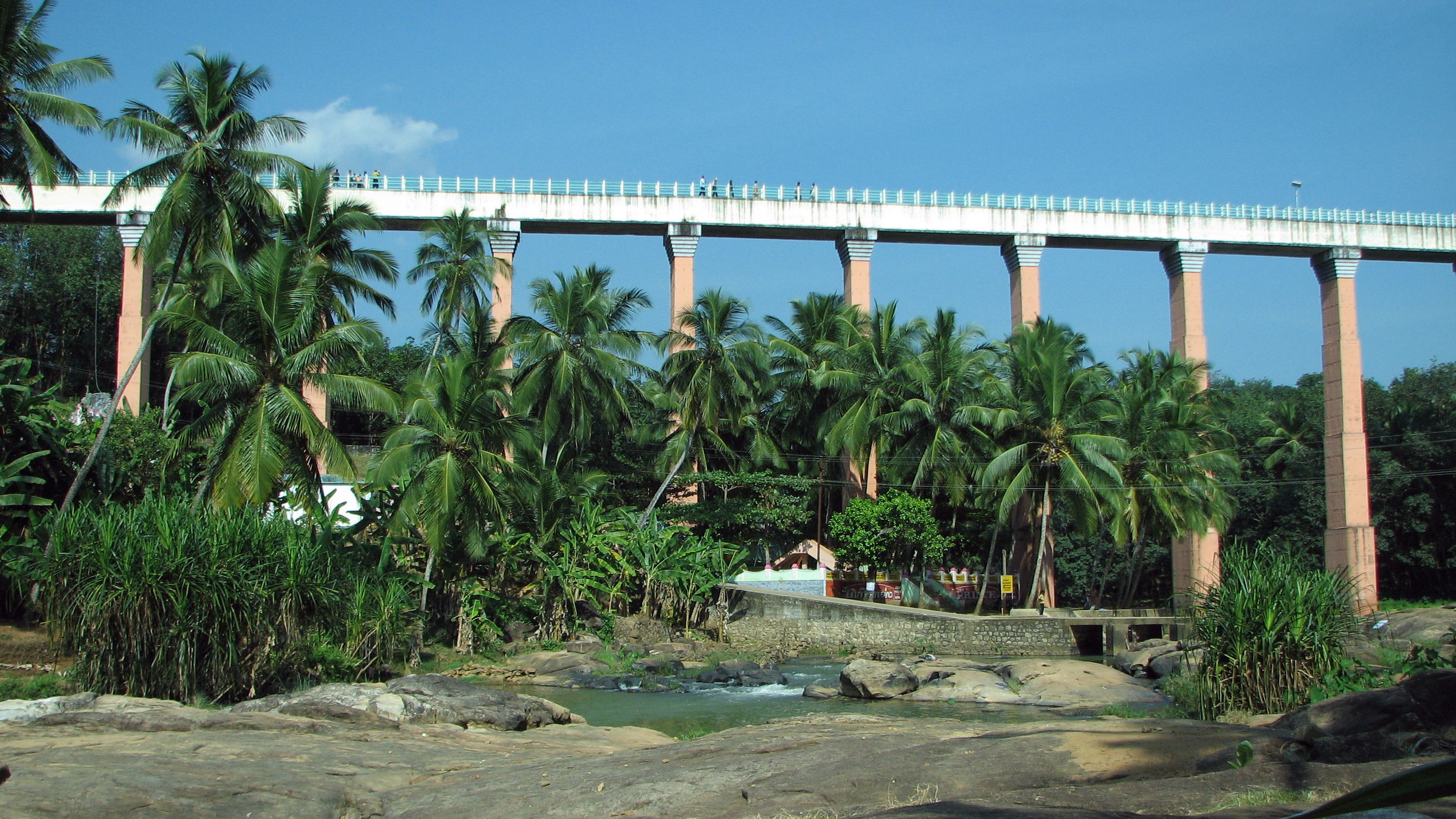 self-made photograph ; Author's Name : Infocaster